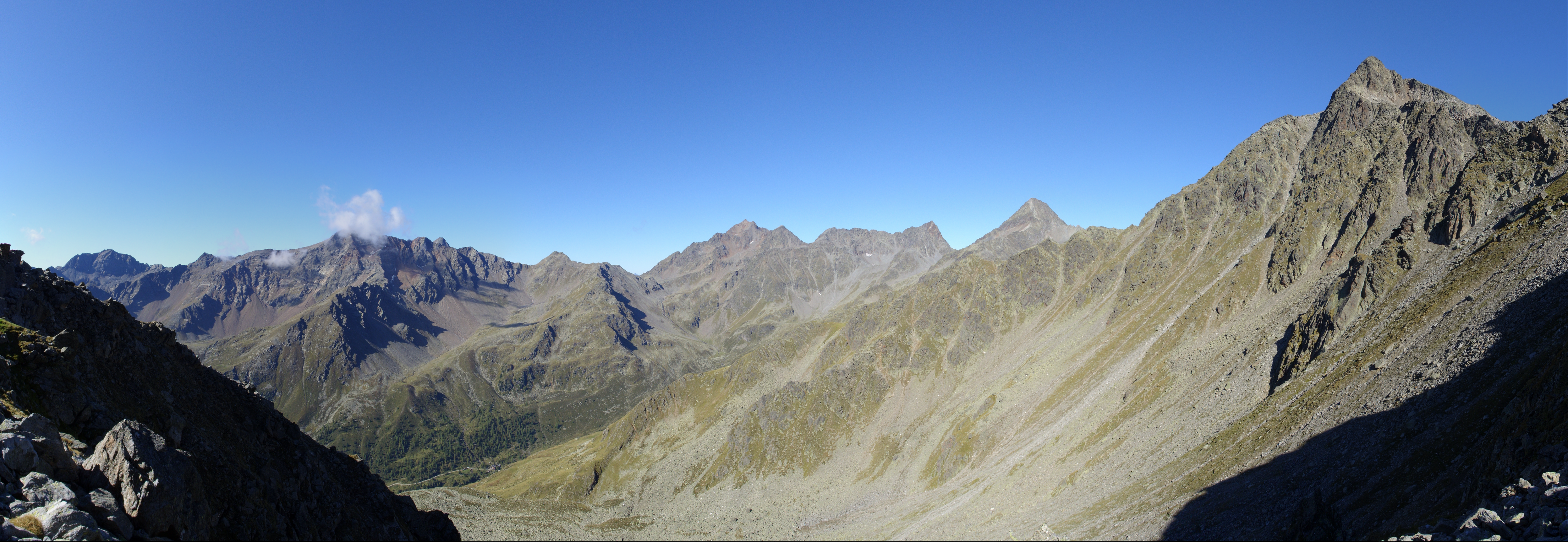 Panoramic view of the Debant Valley from the Weissenwandspitze mountainside (circa 2630 m), Schober Group, Tyrol, Austria.